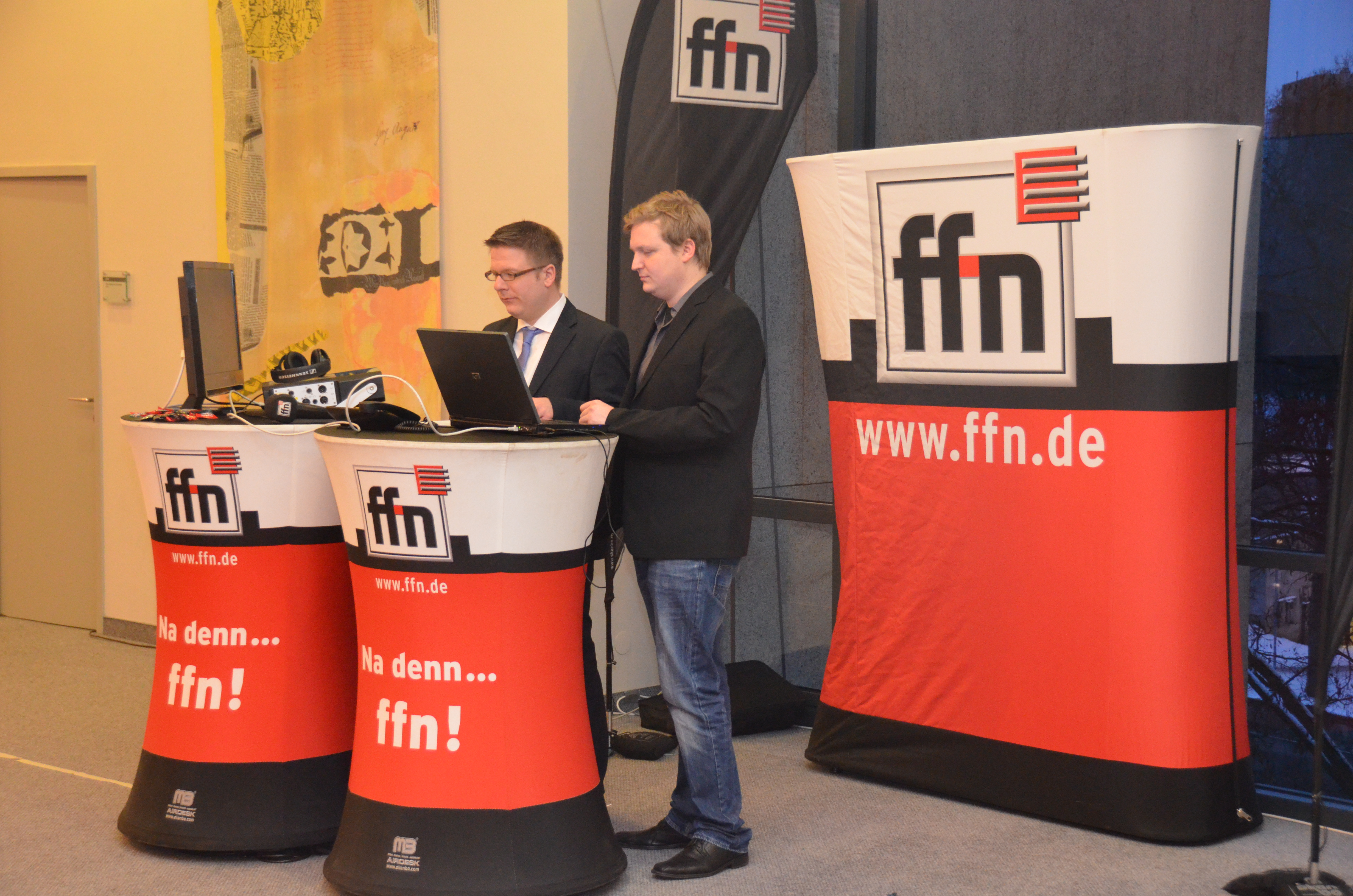 Wikipedia im Landtag – Niedersachsen 20. Januar 2013 in Hannover am WahlabendDieses Bild entstand während der Landtagswahl in Niedersachsen 2013 im Landtag Hannover. This work is free and may be used by anyone for any purpose. If you wish to use this content, you do not need to request permission as long as you follow any licensing requirements mentioned on this page.